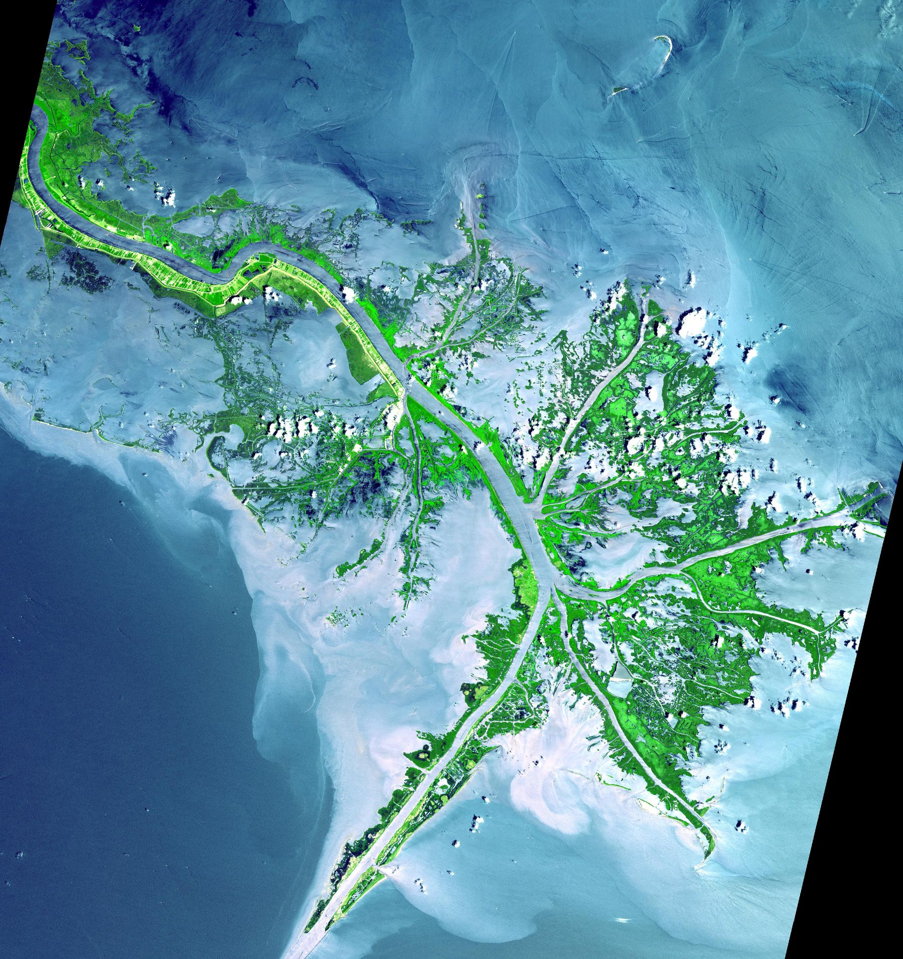 Mississippi River Delta from space. This image was acquired on May 24, 2001 by the Advanced Spaceborne Thermal Emission and Reflection Radiometer (ASTER) on NASA's Terra satellite. Hurricanes Katrina and Rita destroyed much of the Mississippi River Delta in 2005.